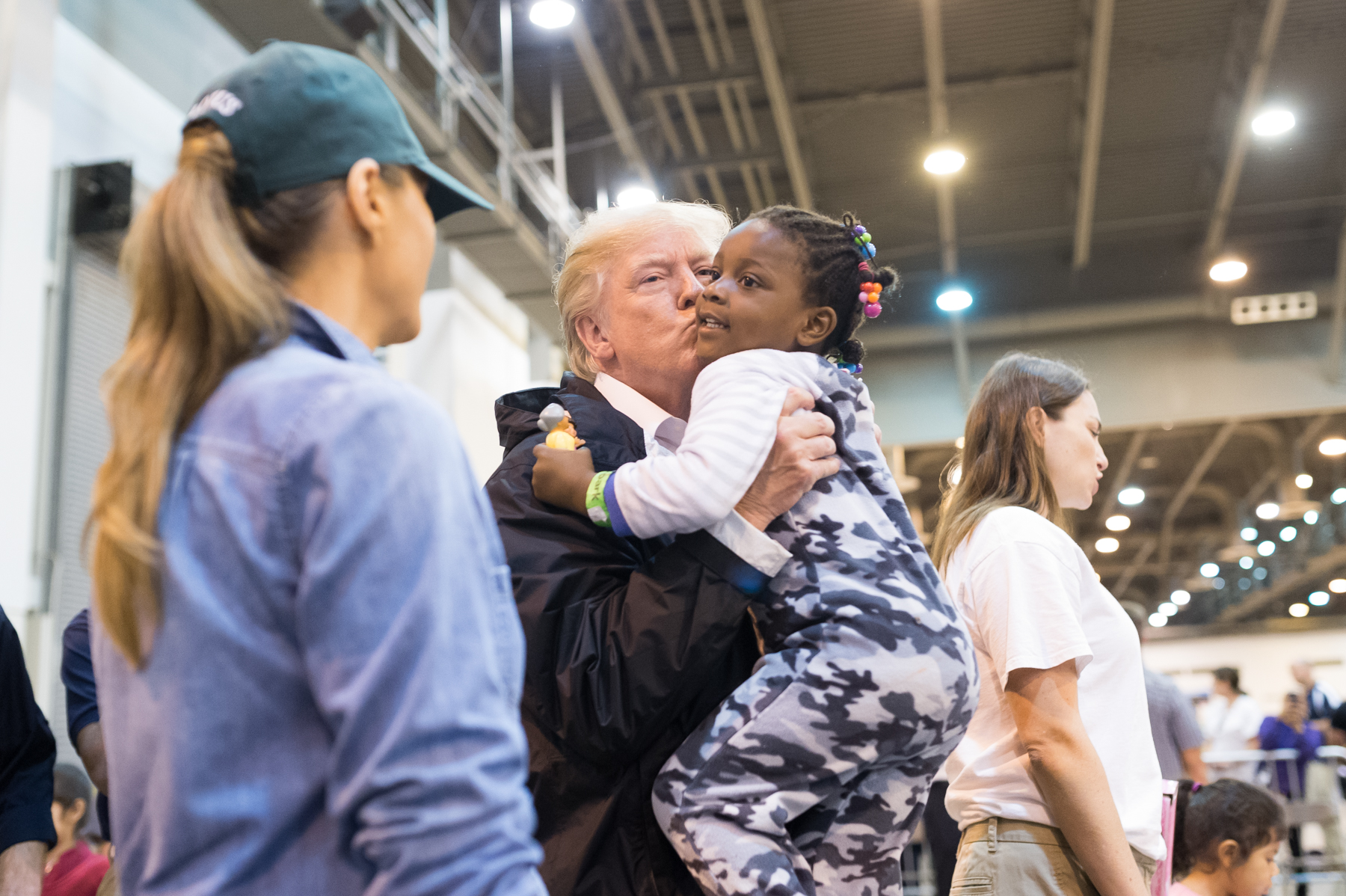 President Donald J. Trump at the NRG Stadium in Houston, Texas | September 2, 2017 (Official White House Photo by Andrea Hanks)